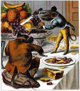 From a set of illustrations to "The Town and Country Mouse" in Aunt Louisa's Oft Told Tales, New York c.1870